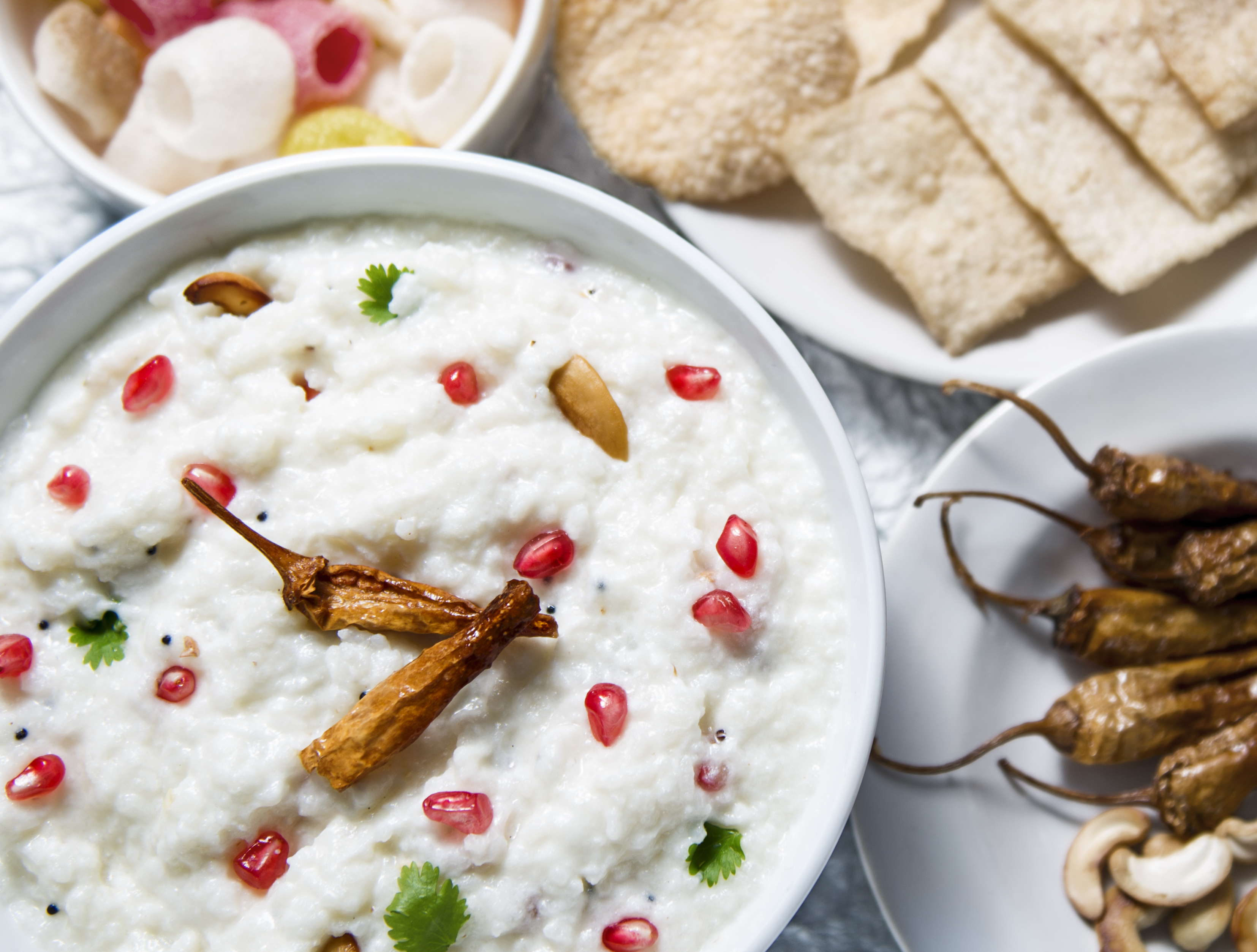 Curd rise with puppads and casews